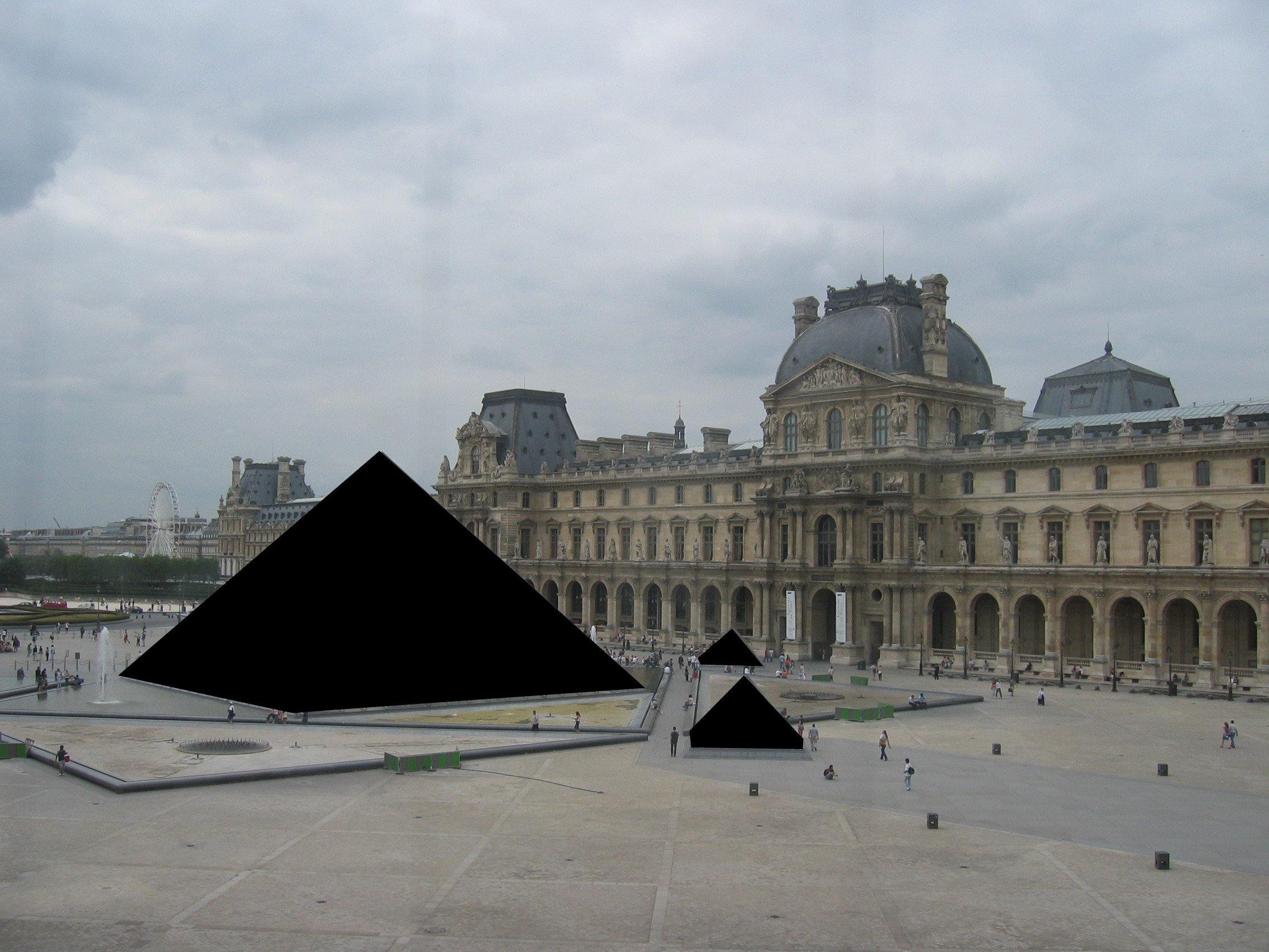 Blacked out version of File:From Inside the Lourve - panoramio.jpg